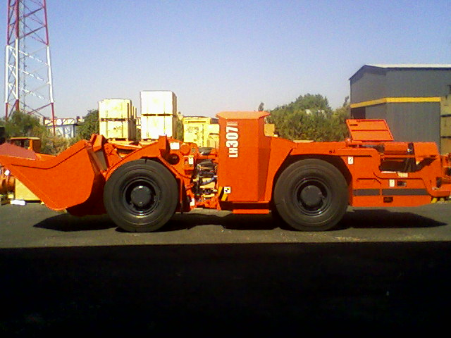 This is a of the new LHD of SANDVIK, the name is LH307